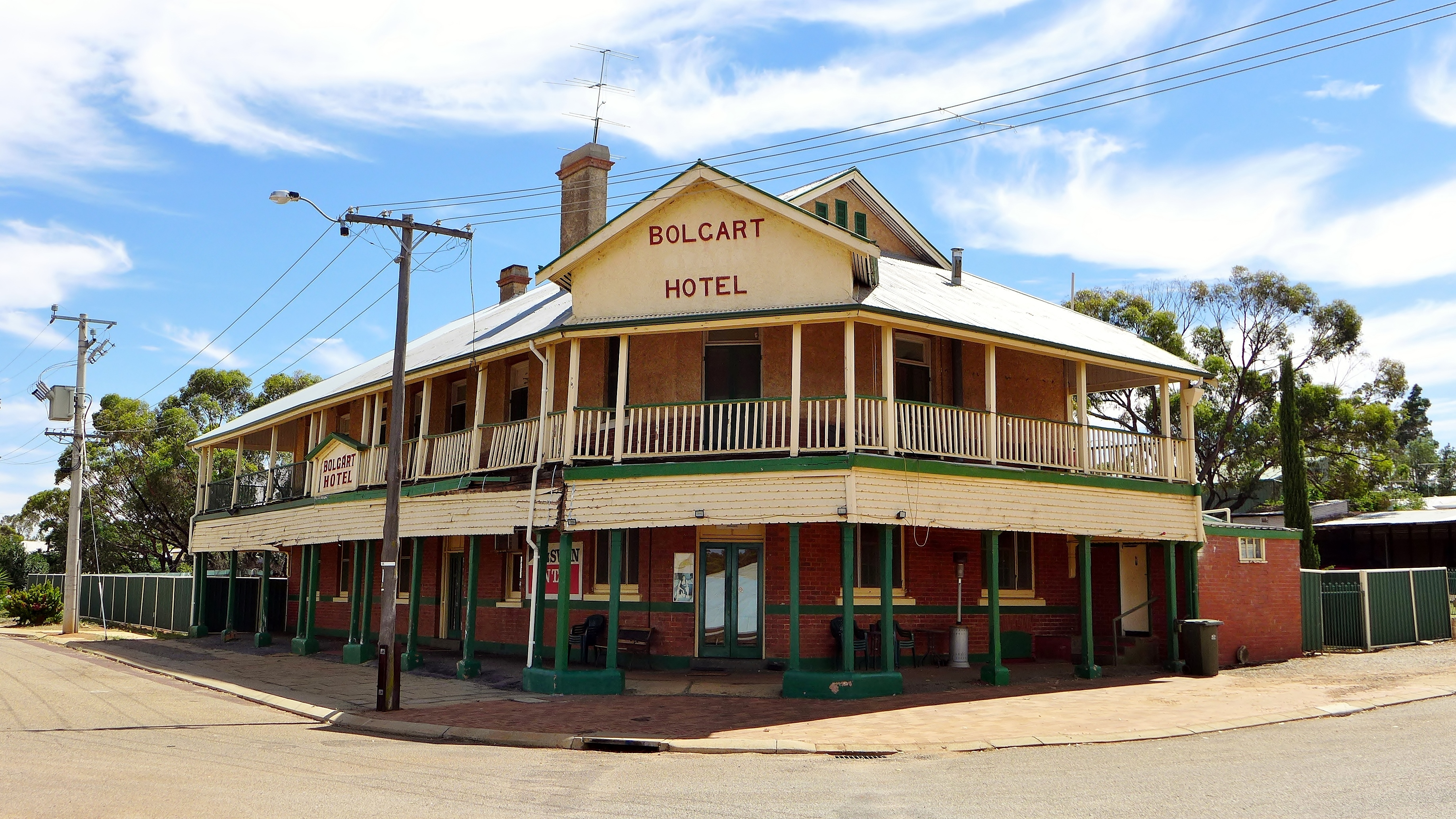 View of the Bolgart Hotel, originally the State Hotel, cnr Poincare and Albert Streets, Bolgart, Western Australia.